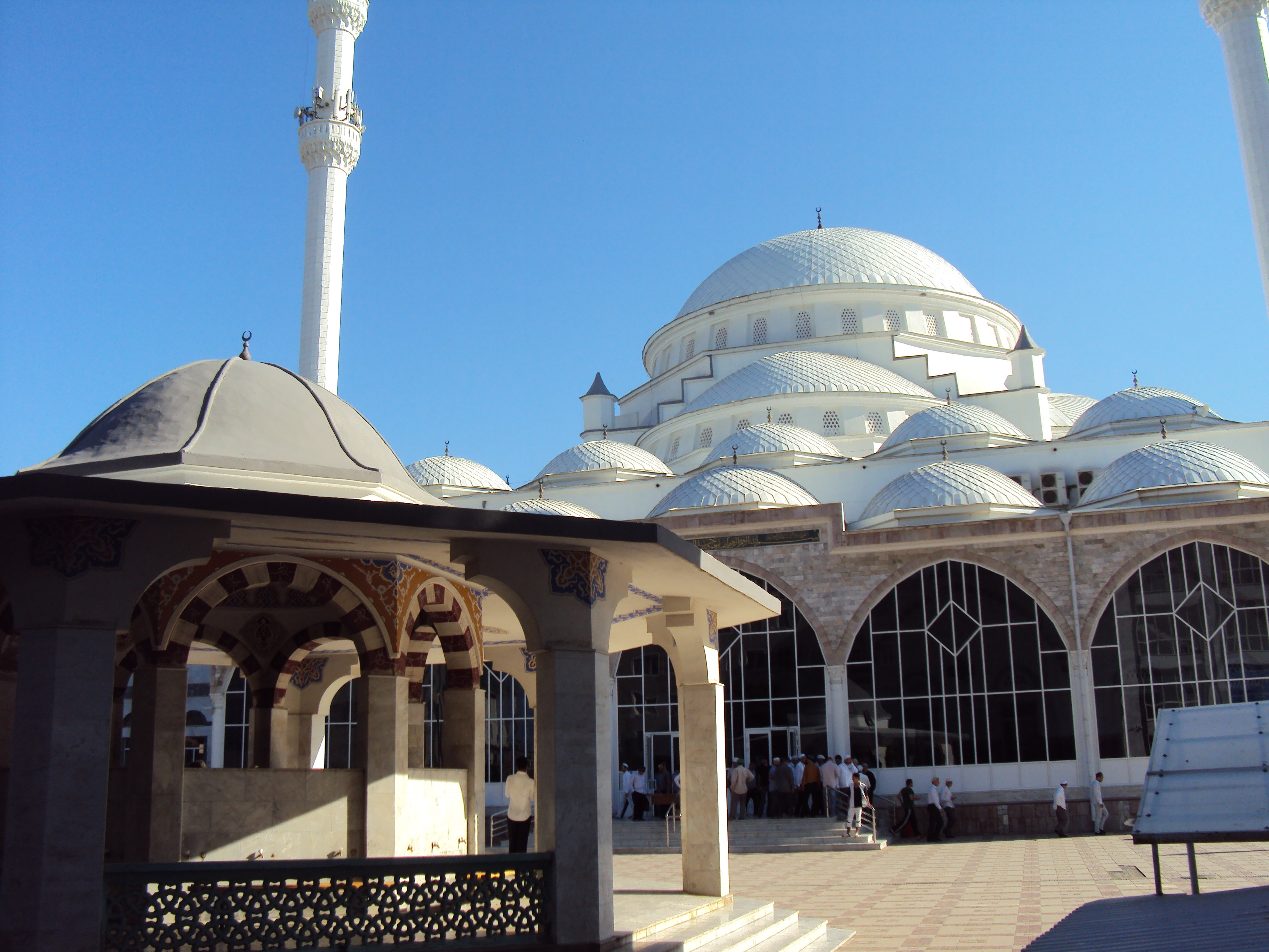 Central mosque of Makhachkala - Dagestan Republic (Russian Federation)